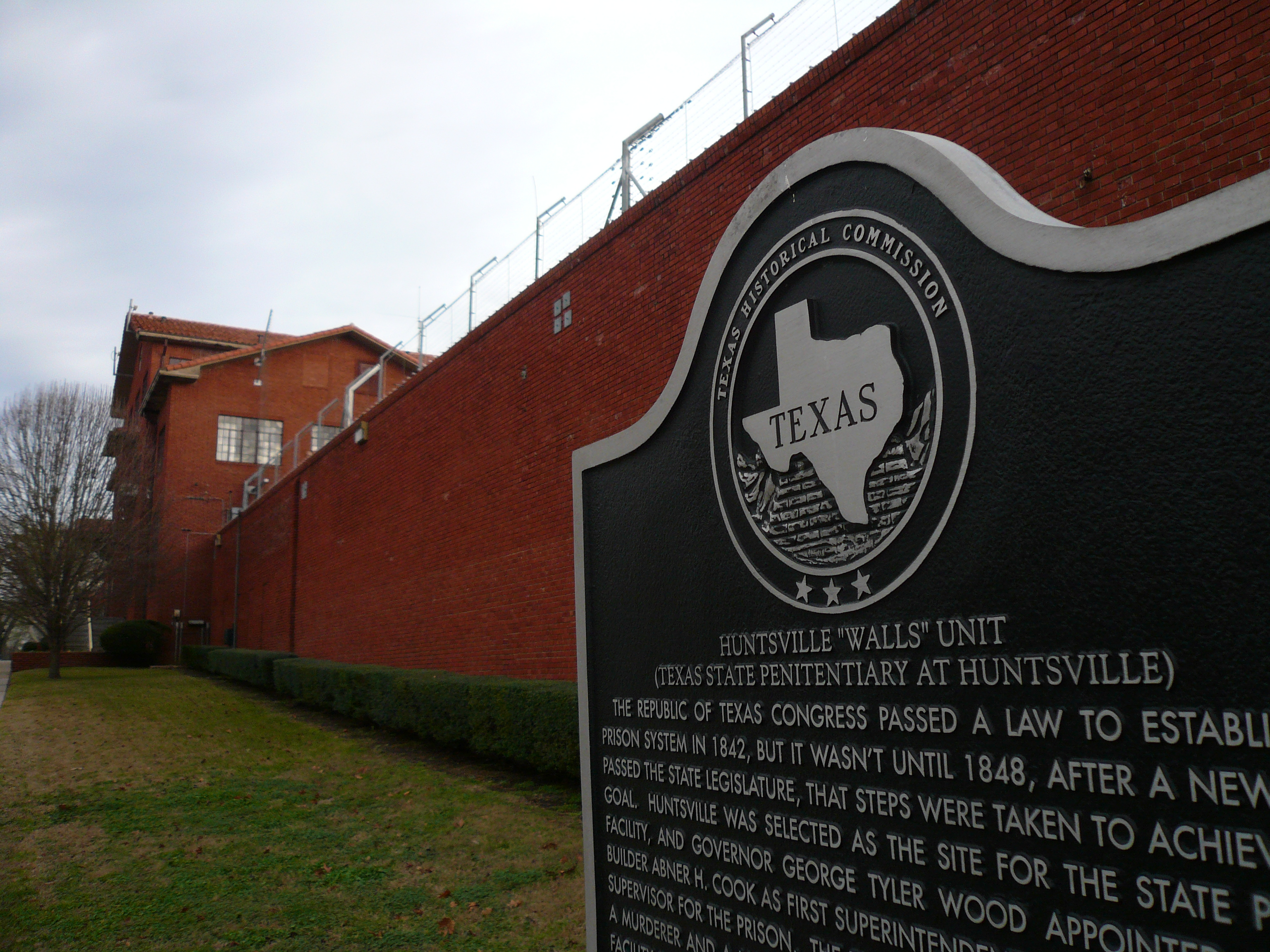 The Huntsville Unit has the nickname "Walls Unit" because the unit has red brick walls.